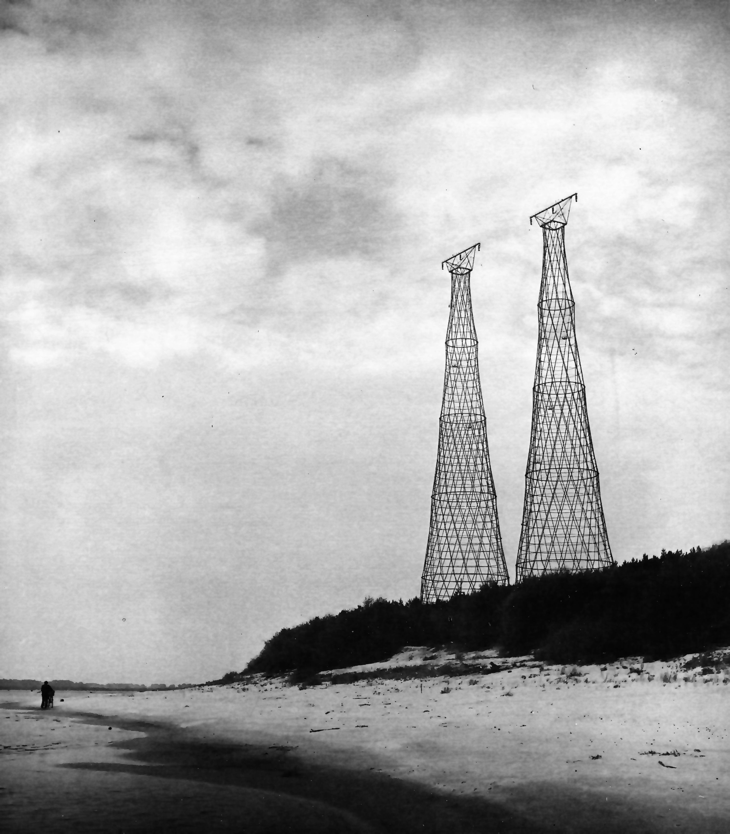 Shukhov Towers on the Oka River near Dzerzhinsk, in Nizhniy Novgorod Oblast, central Russia – hyperboloid diagrid shell electricity pylons. The Shukhov Towers were part of 110 kV power lines crossing the Oka River. Between 1927 and 1929, two parallel-running, 110 kV three-phase AC power lines with towers designed by Russian engineer and scientist Vladimir Shukhov (1853–1939) were built there. For the Oka River crossing, six hyperbolic pylons (three for each power line) were built, a 20 metre tall anchor pylon, a 68 metre tall crossing pylon on the South shore and a 128 metre tall crossing pylon on the North shore. As the terrain on the South shore is hilly, the pylons there were lower. In 1989 the powerline was rerouted and the 20 and 68 metre pylons were dismantled. The 128 metre pylons were left intact as a monument. Today, only one of the 128 metre pylons stands as the other (eastern one) was illegally demolished to sell its steel in May 2005. (The west tower is the world’s only surviving hyperboloid electricity pylon.) The Shukhov Towers each consist of five 25-metre steel lattice sections, formed by single-cavity hyperboloids of revolution. The pylon sections are made of straight profiles, the ends of which rest against circular foundations. The tower's circular concrete foundation has a diameter of 30 metres.